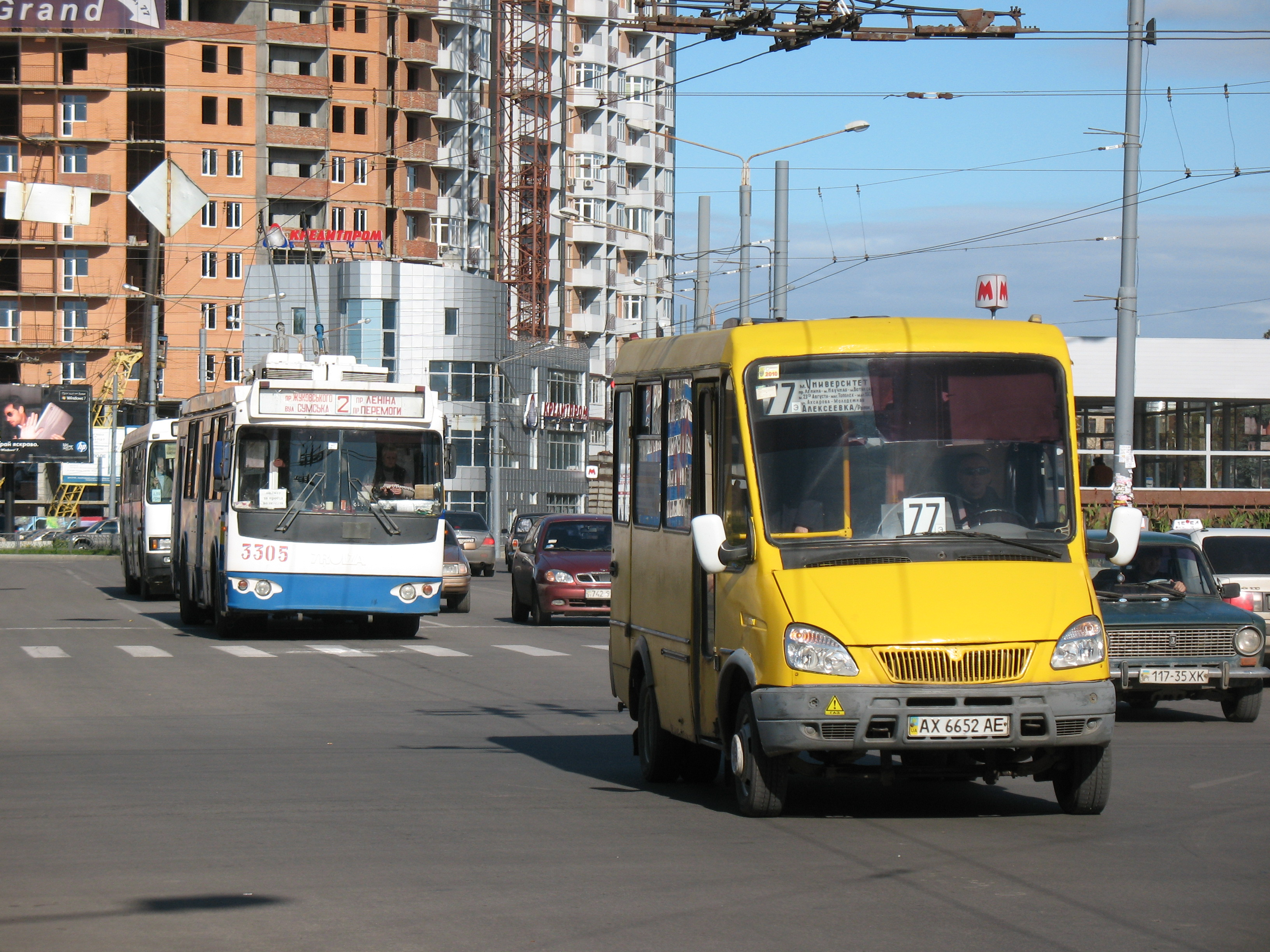 Kharkov city in Ukraine. Kharkov bus BAZ 2215 Delfin (line #77) and trolleybus Trolza (#3305, on line #2).